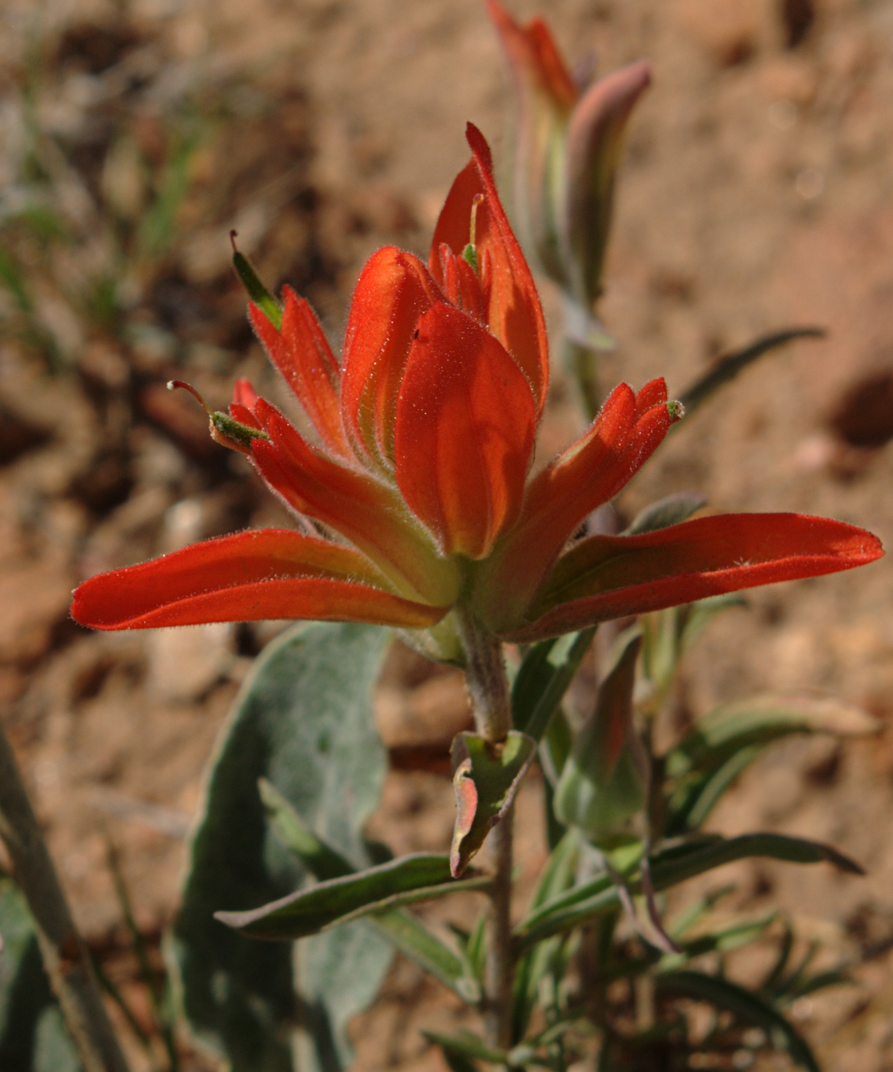 Foothill Paintbrush or Wholeleaf Indian Paintbrush, Castilleja integra, Randall Davey Audubon Center (not far from the visitors' center), Santa Fe, New Mexico.